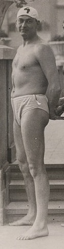 Sándor Ivády in the picture Az 1932. évi, Los Angelesben megrendezett X. nyári olimpia aranyérmes magyar vízilabda csapata (balról jobbra): Ivády Sándor, Bródy György, Vértesy (Vrábel) József, Németh János, Homonnai (Hlavacsek) Márton, Keserű Alajos, Halassy Olivér